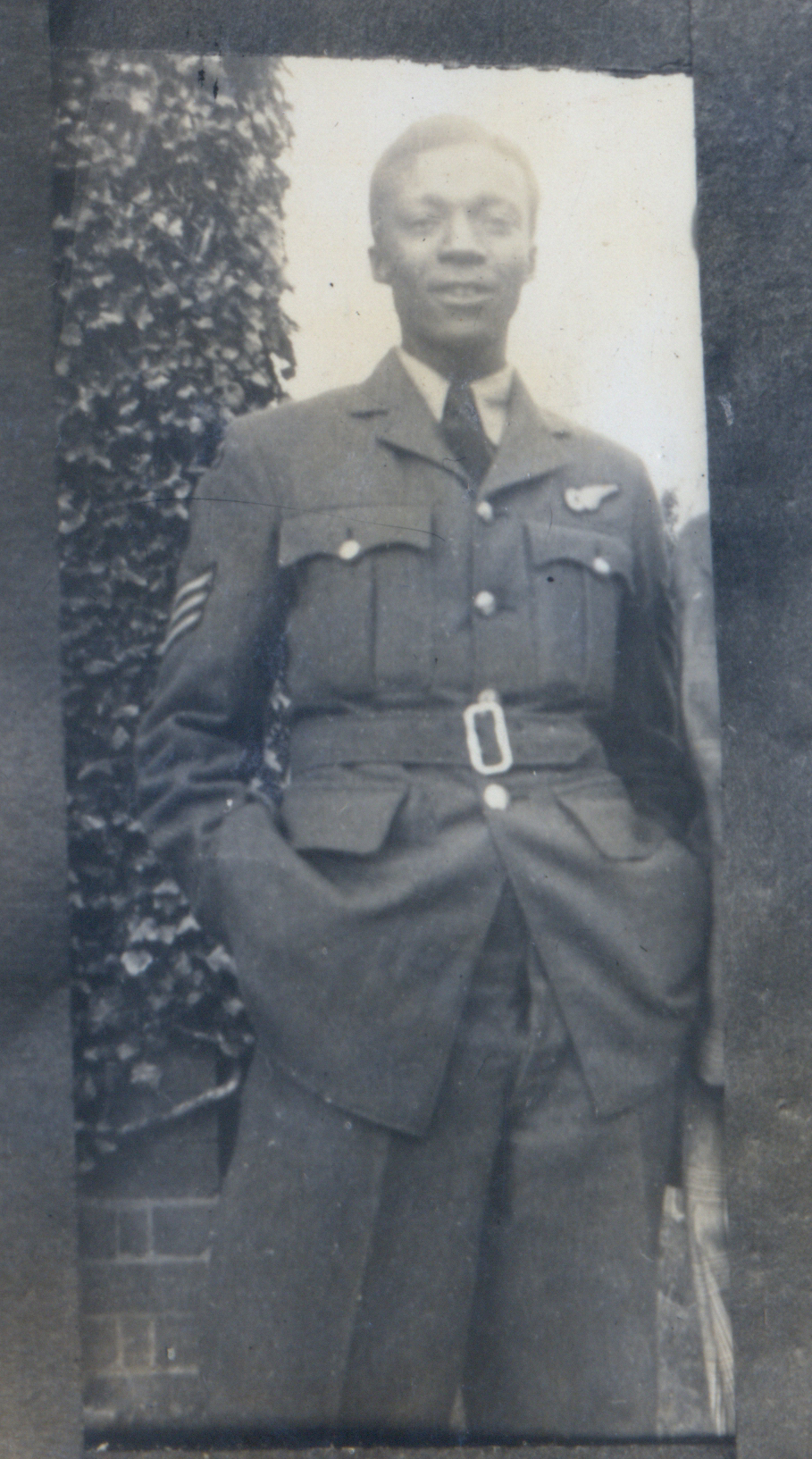 Bankole Vivour in England in RAF uniform